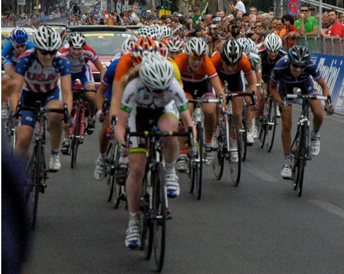 2013 UCI Road World Championships, Sprint peloton (lap 5)